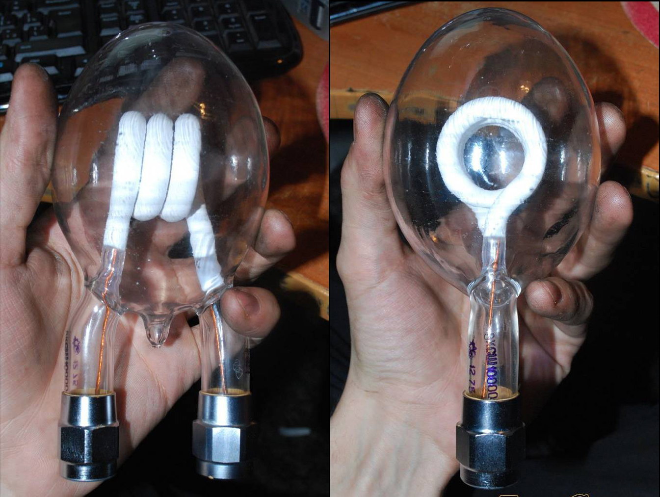 Induction Lamp V-K-S-Sh 10000 W - Xe, Soviet Union 1975